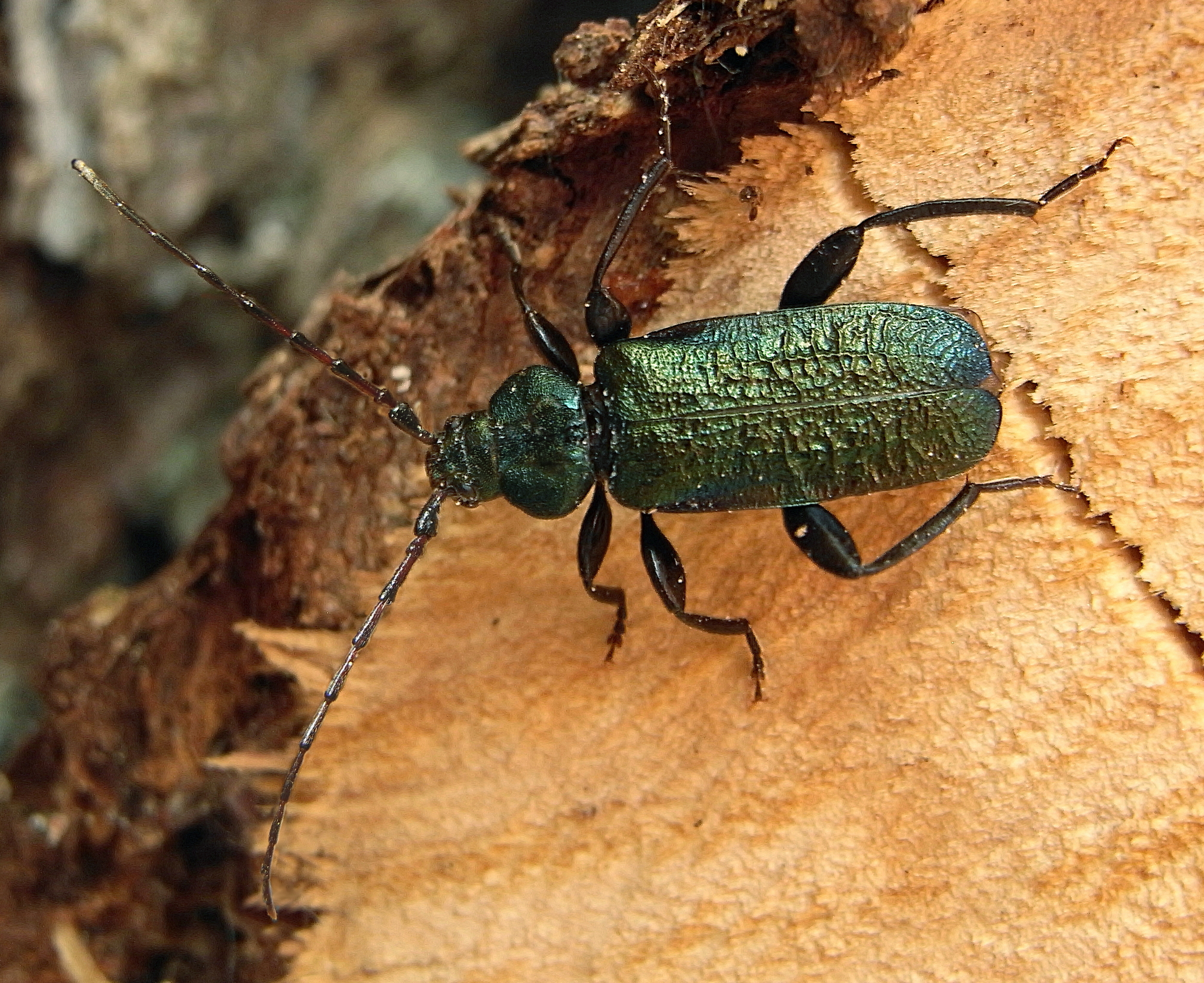 Callidium aeneumRicoh R8